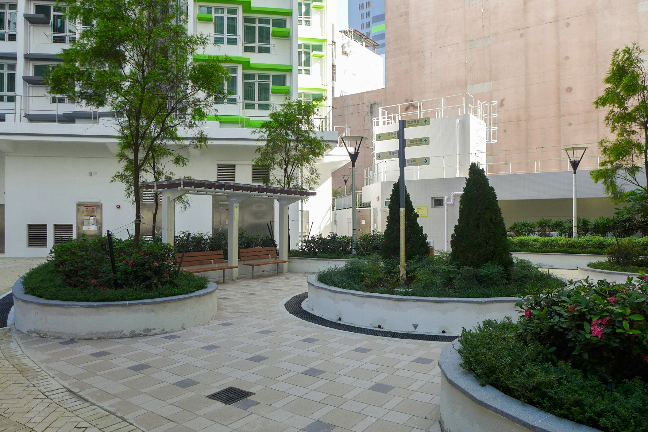 Sheung Chui Court